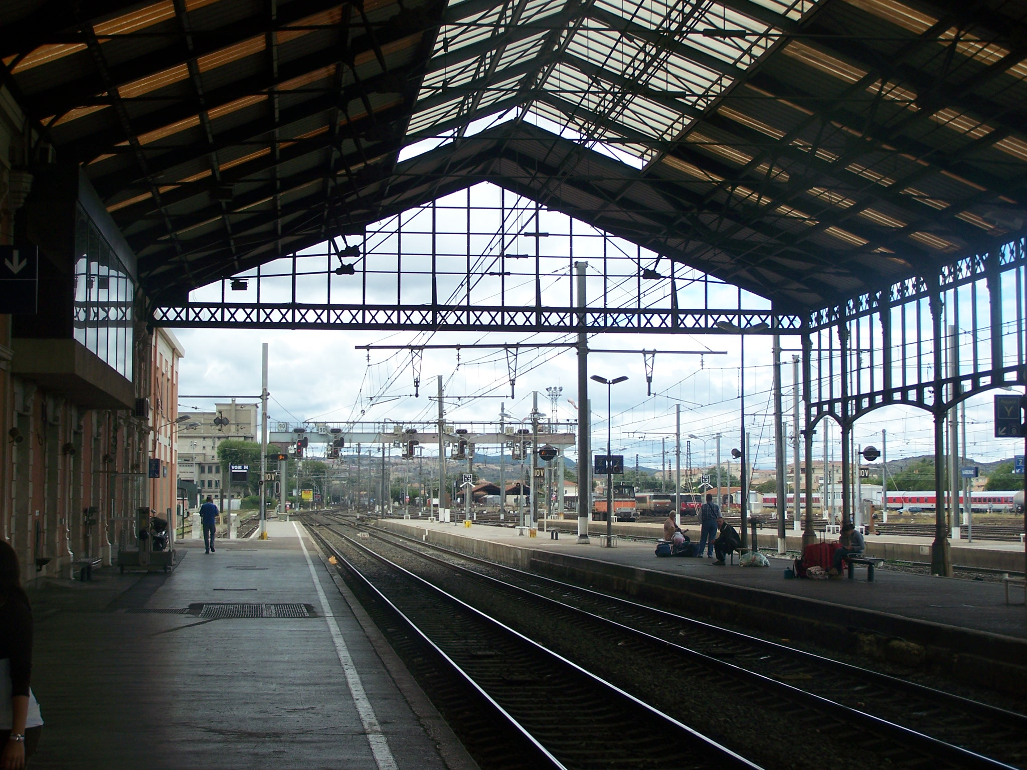 Sight to south-west of the platforms and canopy of Narbonne 's station, in Aude, France.